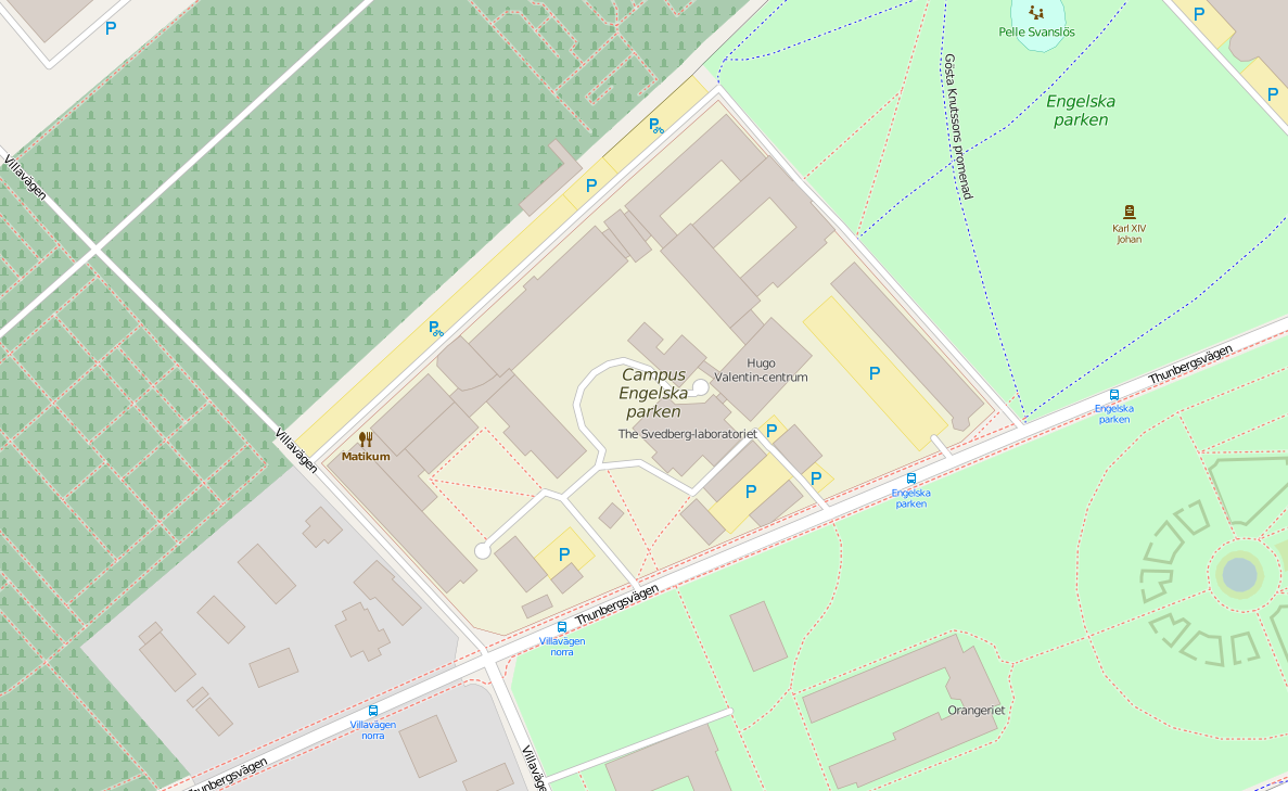 Overview picture/map of Uppsala University campus English Park